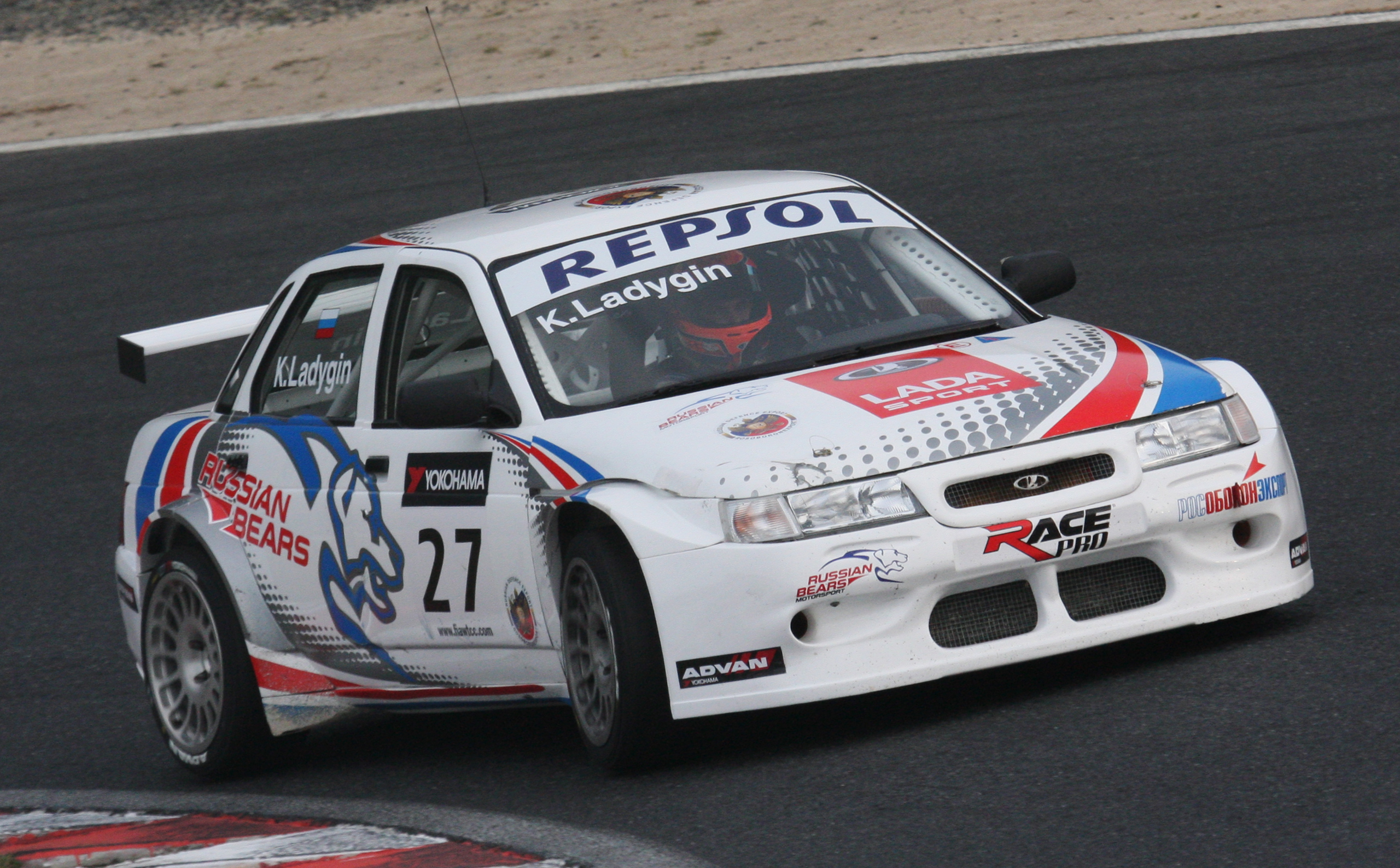 Kirill Ladygin (Russian Bears Motorsport) during qualify session